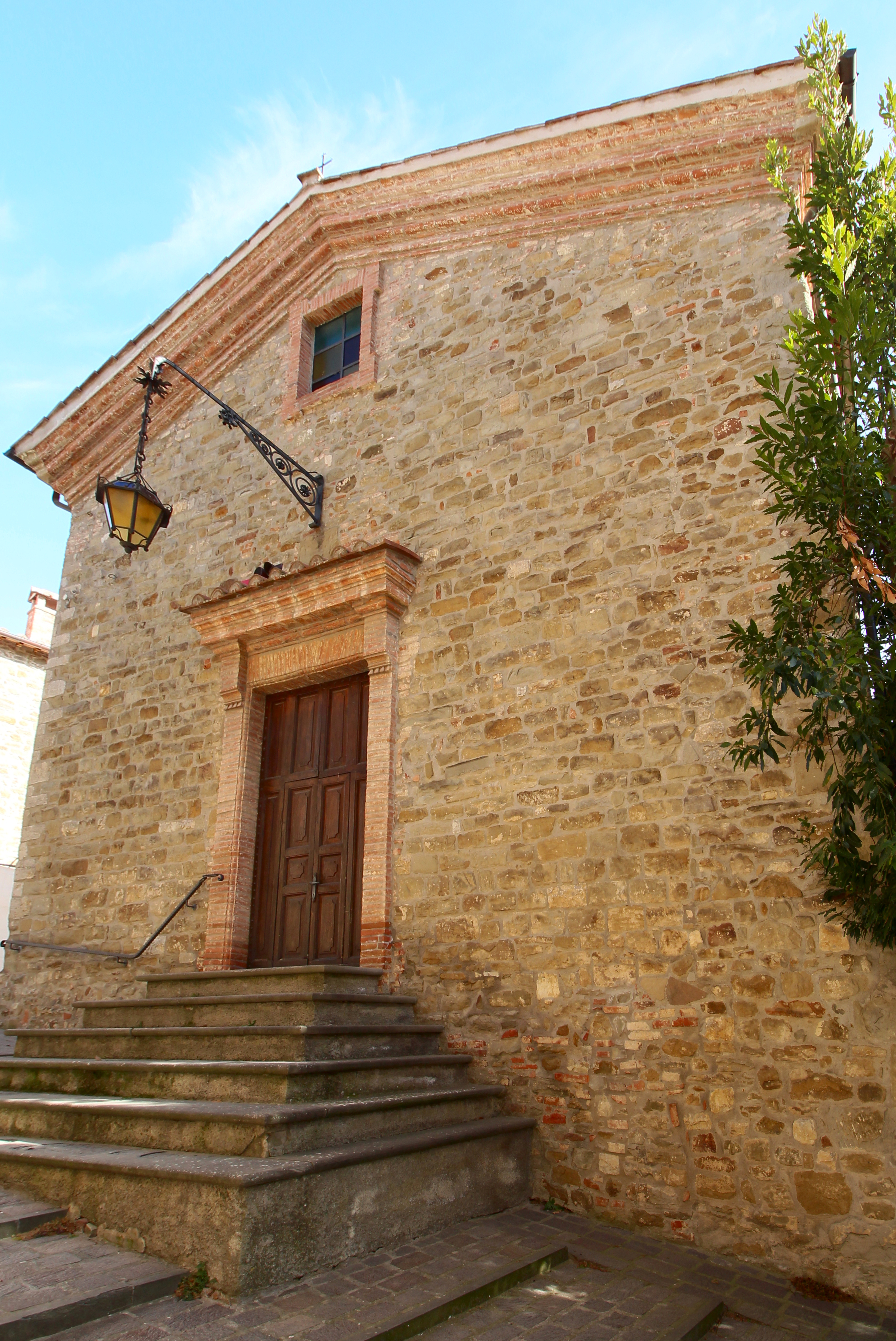 church Santa Croce, Castiglion Fosco, hamlet of Piegaro, Province of Perugia, Umbria, Italy